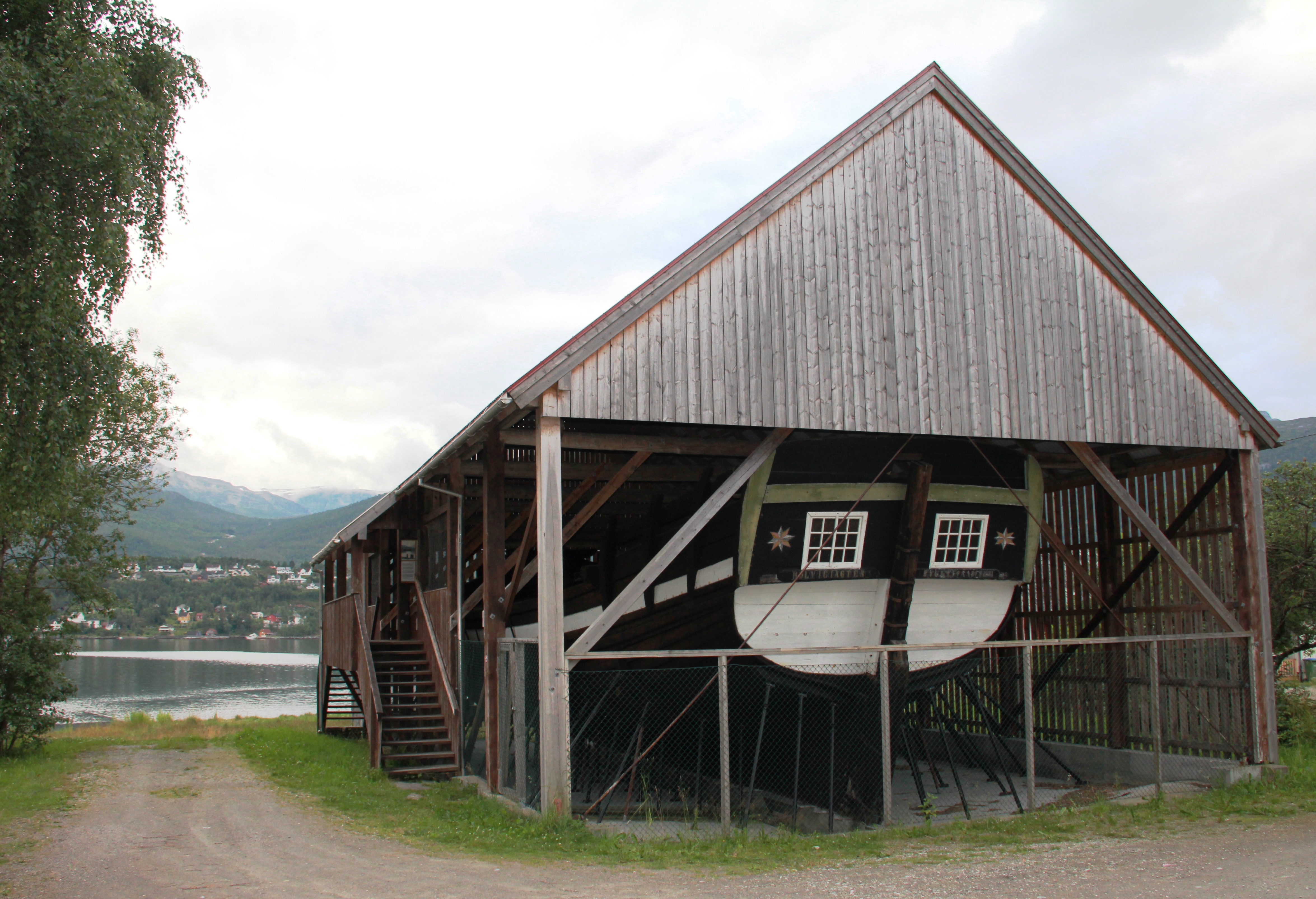 Holvikjekta in Sandane in Gloppen, Sogn og Fjordane is part of the Nordfjord Folkemuseums collection